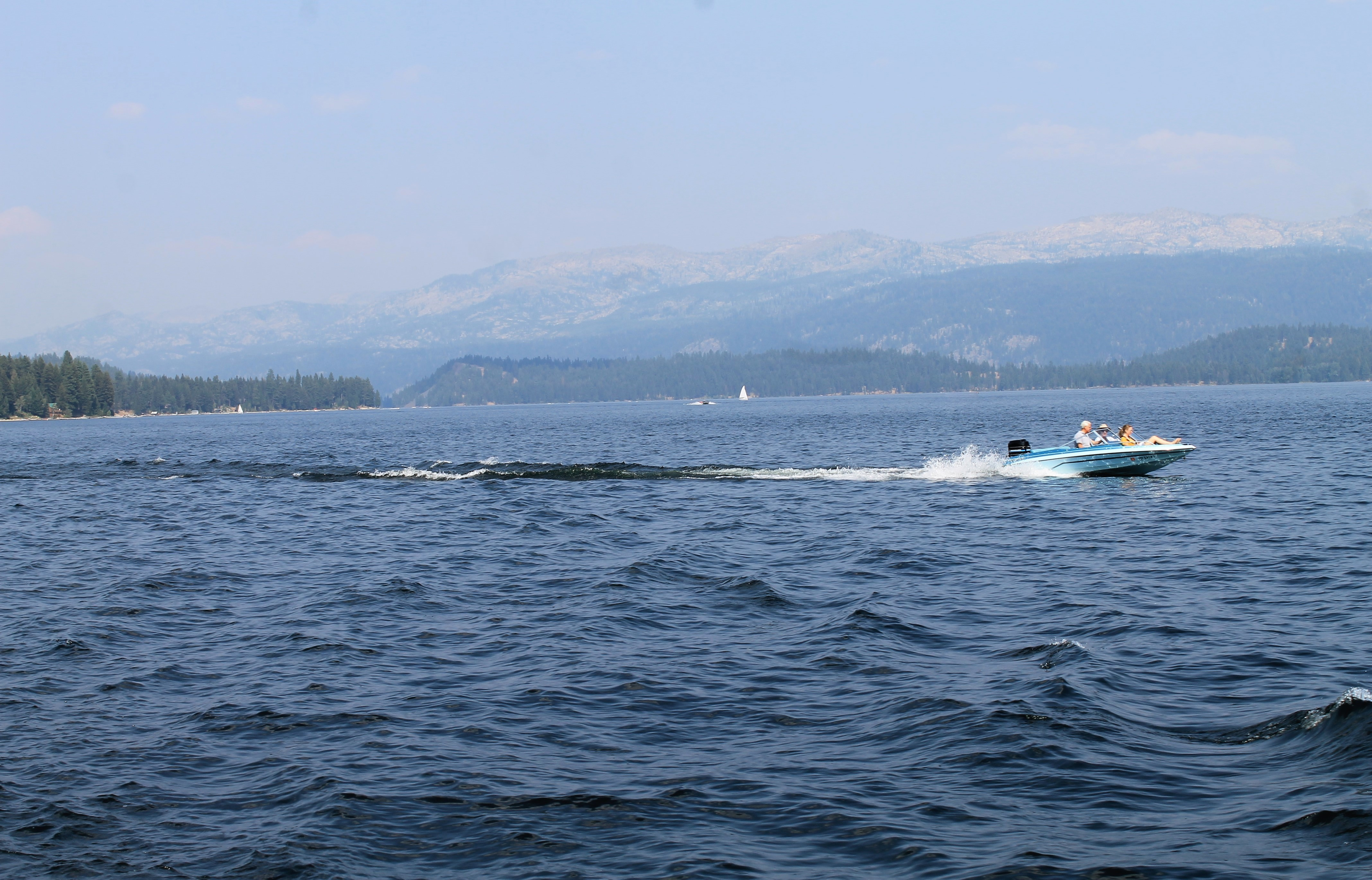 This is Payette Lake seen from the McCall Cruise Boat, 2018.